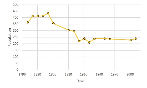 The population statistics for the parish of Hannington, Wiltshire, attained from census data 1800-2011.